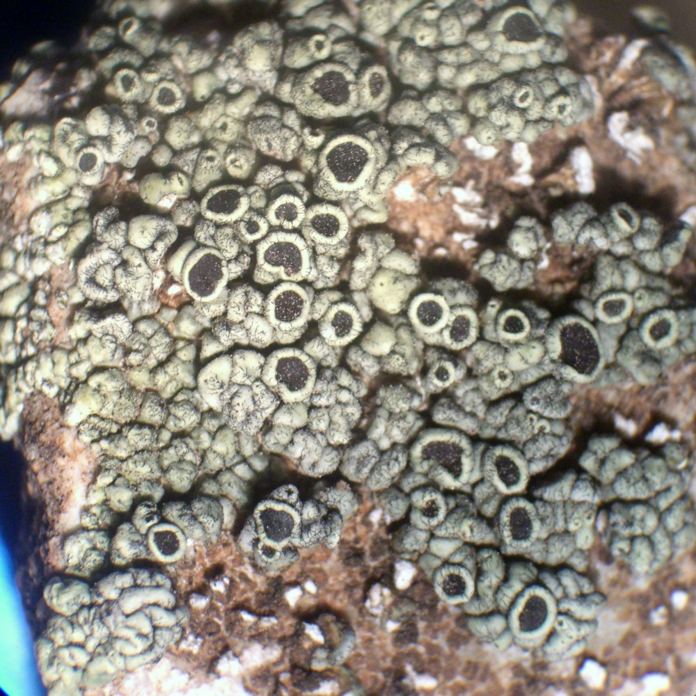 The lichen Lecanora argopholis (Ach.) Ach.; photographed with 10X magnification. Specimen found in the Rim of Marble Canyon, Grand Canyon National Park, Coconino Co., Arizona, USA.